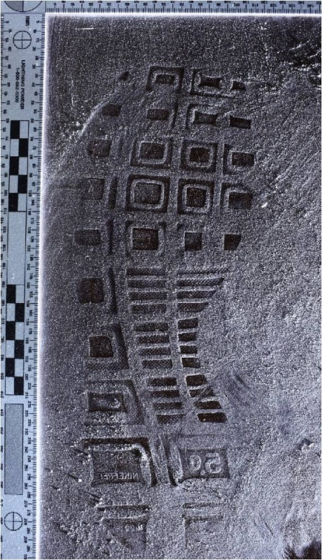 Photo of a footwear impression made by a suspect's left shoe.